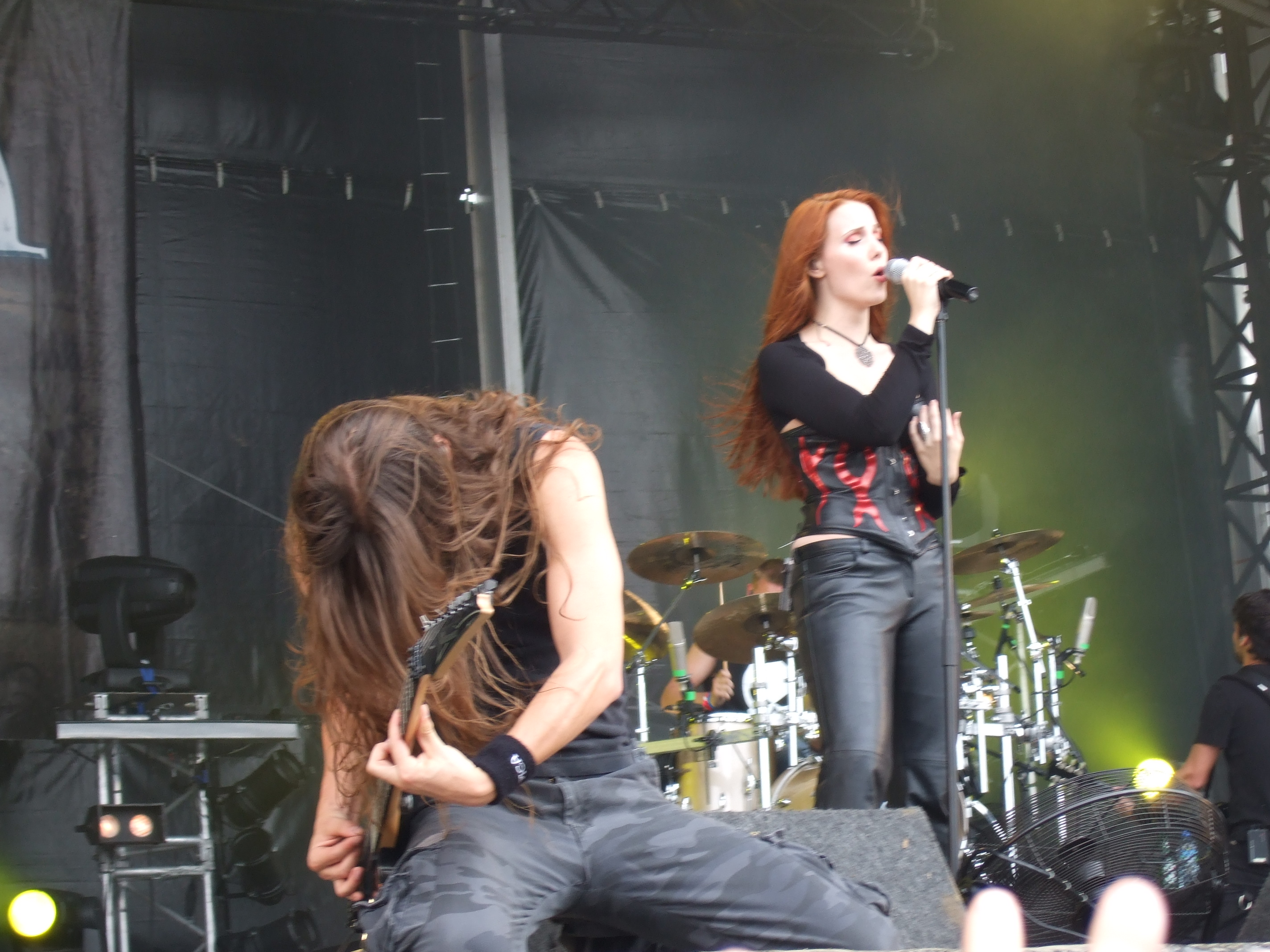 Epica at Hellfest Summer Open Air 2007.